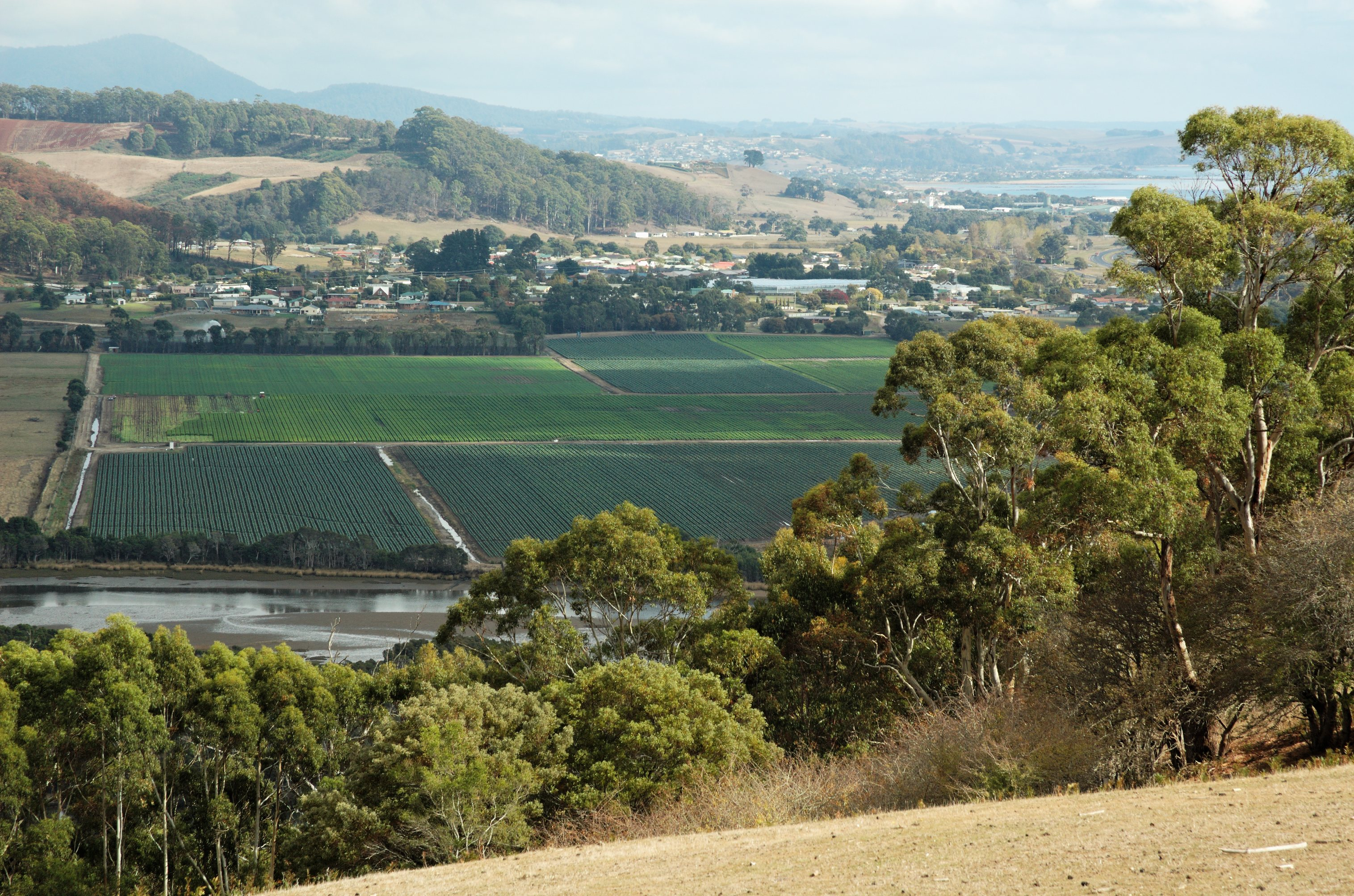 The Forth Valley with houses in Turners Beach in Tasmania seen from Braddons Lookout.